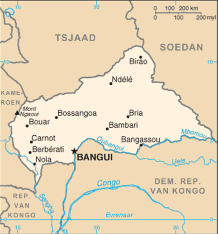 An Afrikaans map of the Central African Republic.